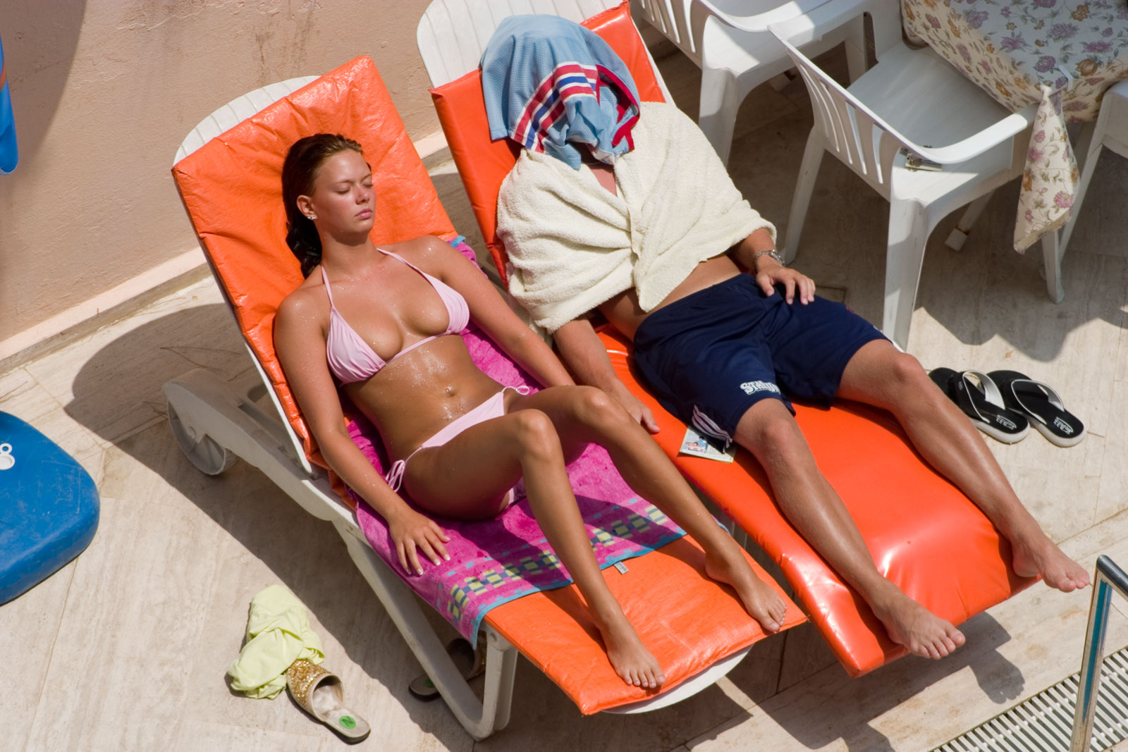 Sunbathing woman in bikini and man with covered face and torso.